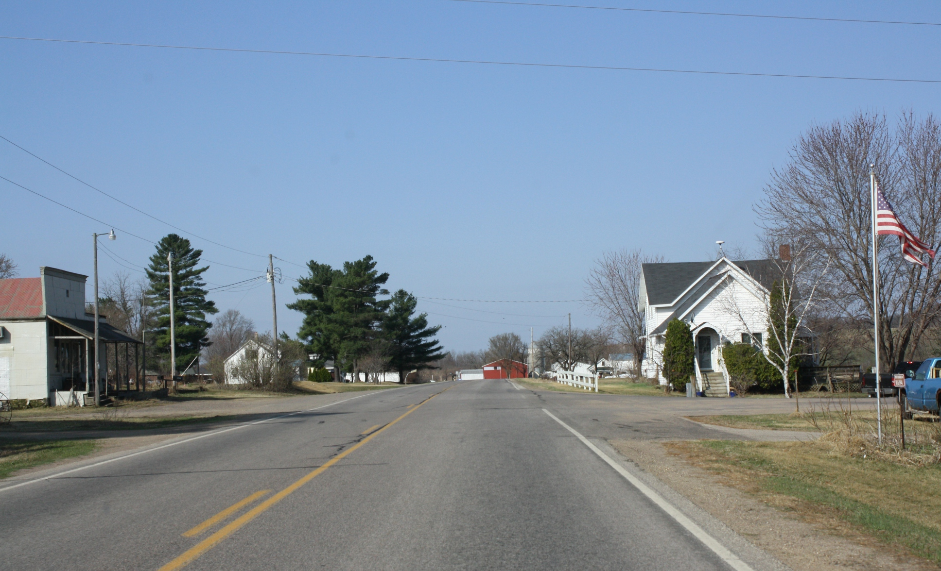 Looking west in Franklin (community), Jackson County, Wisconsin along County C.